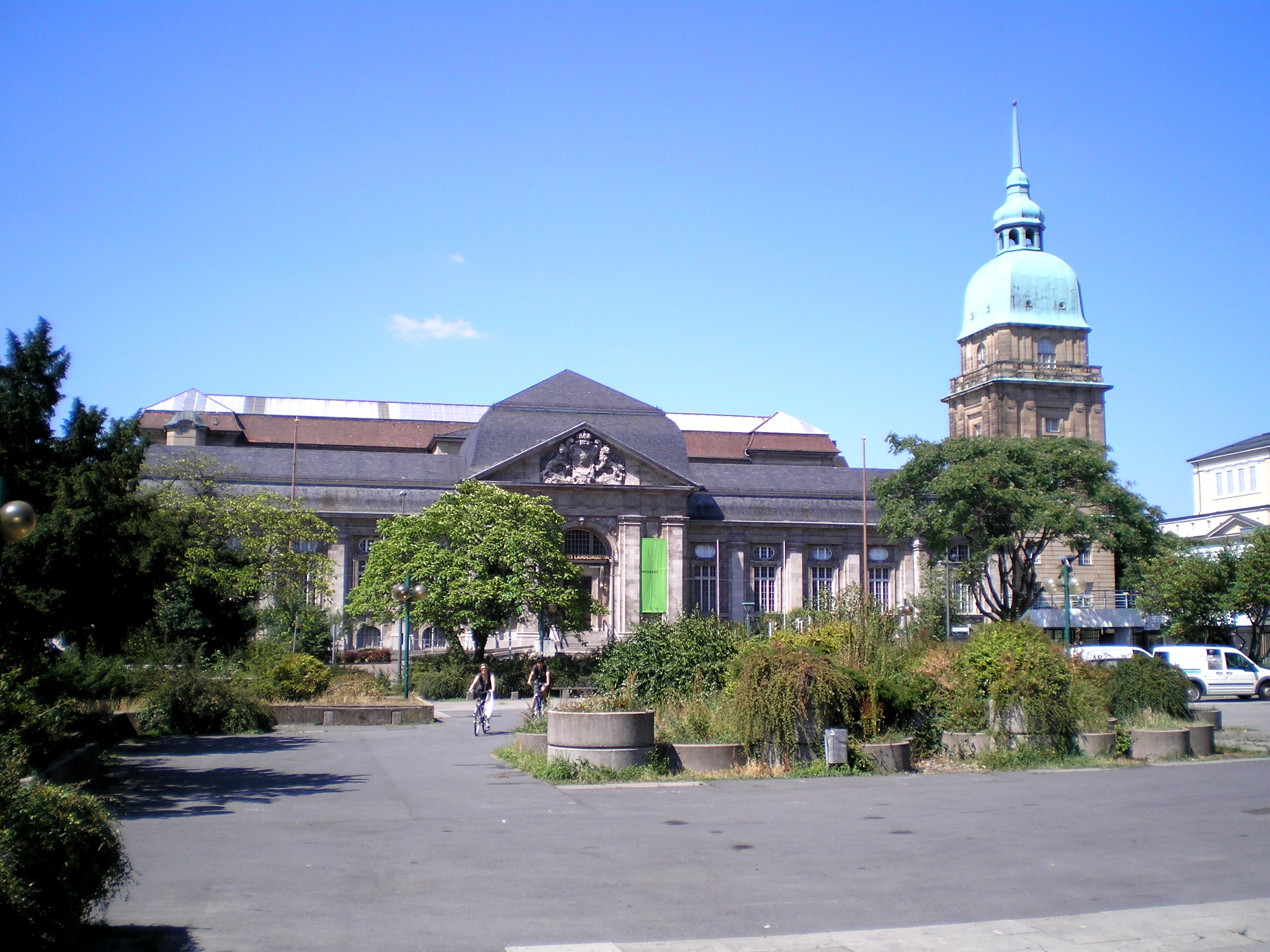 Museum of Hessen in Darmstadt.